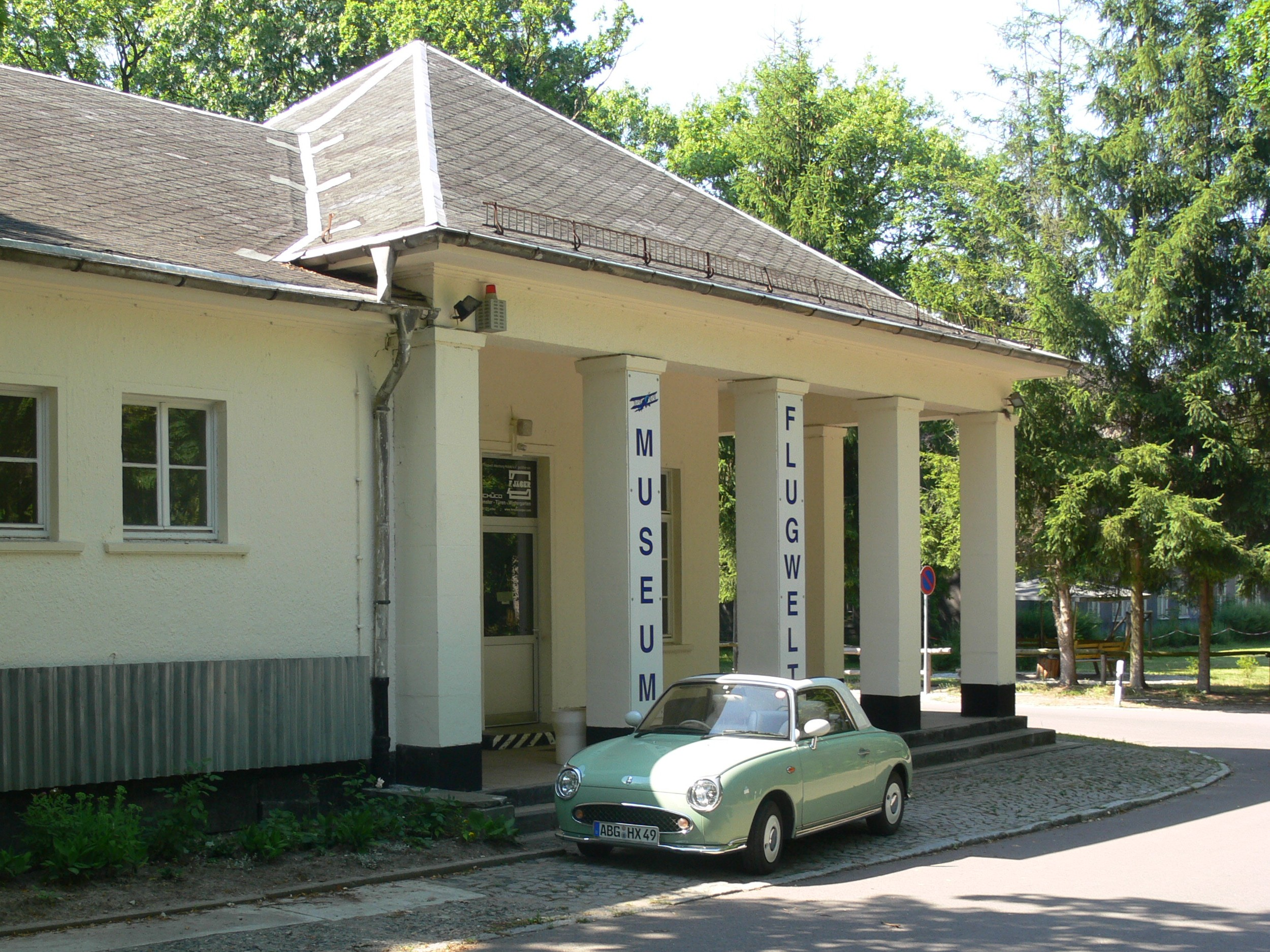 Flugwelt Altenburg-Nobitz